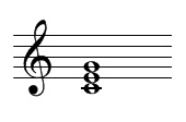 C Major Triad in close root position.